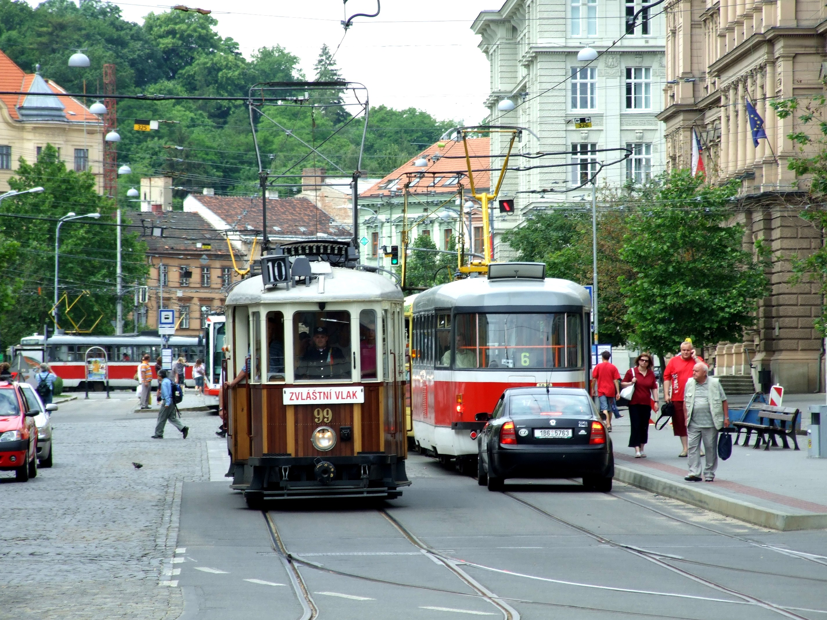 Old and modern tram meeting in Brno Česká streethelp